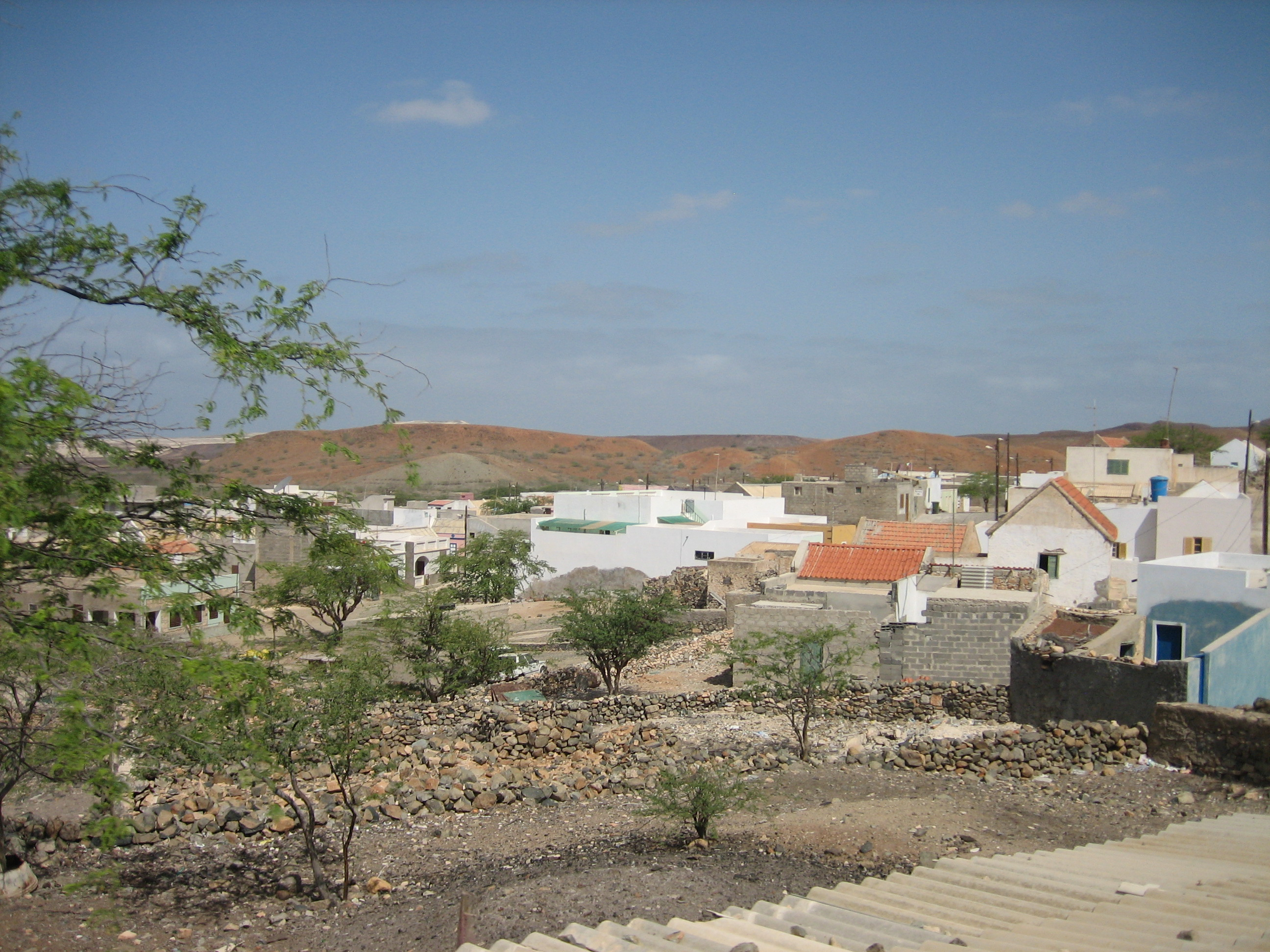 The village Povoação Velha in the south of Boa Vista, Cape Verde